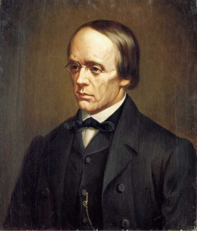 Halfdan Kjerulf. Painting by unknown artist, copy after Knud Bergslien